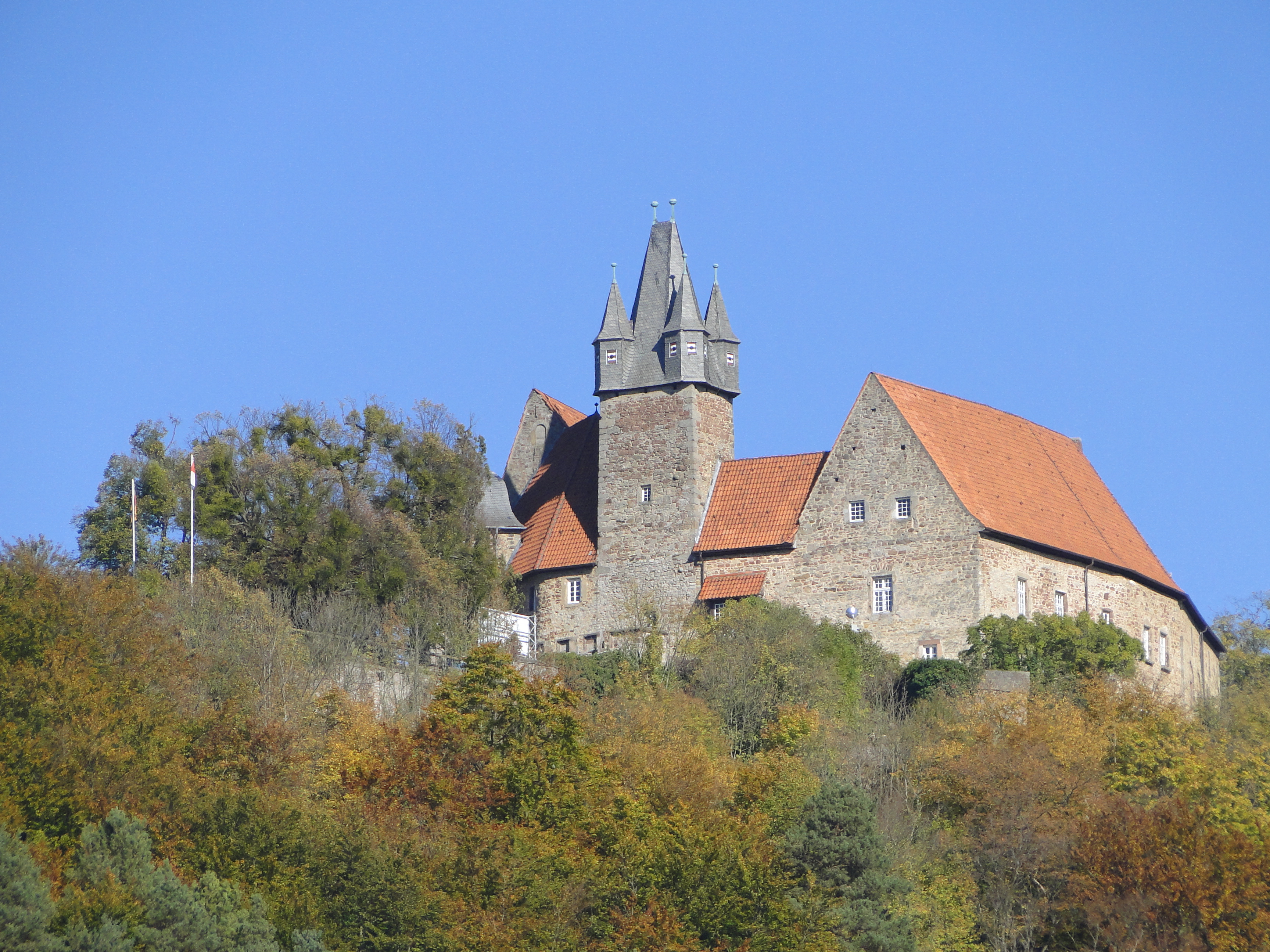 Front view of Schloss Spangenberg, picture taken from the Melsunger Straße.